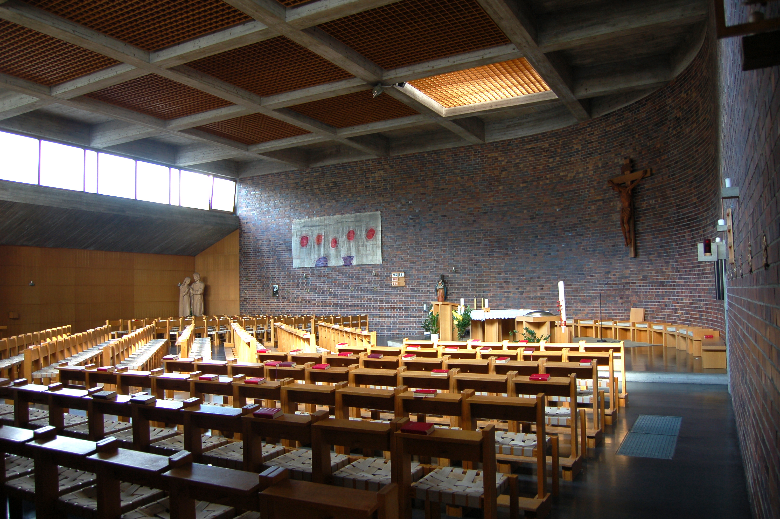 Interior of St. Joseph parish church, Winzendorf, Lower Austria